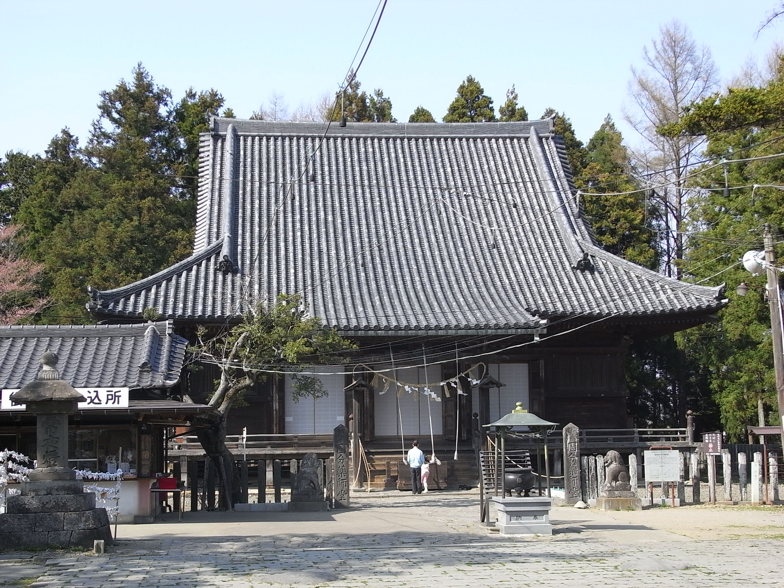 Mutsu Kokubin-ji Yakushi-dō (Mutsu Provincial Temple's Bhaisajyaguru Shrine. Kinoshita, Miyagino ward, Sendai, Miyagi prefecture, Japan. The Mayor Building of the temple. Built in 1607 by Date Masamune.